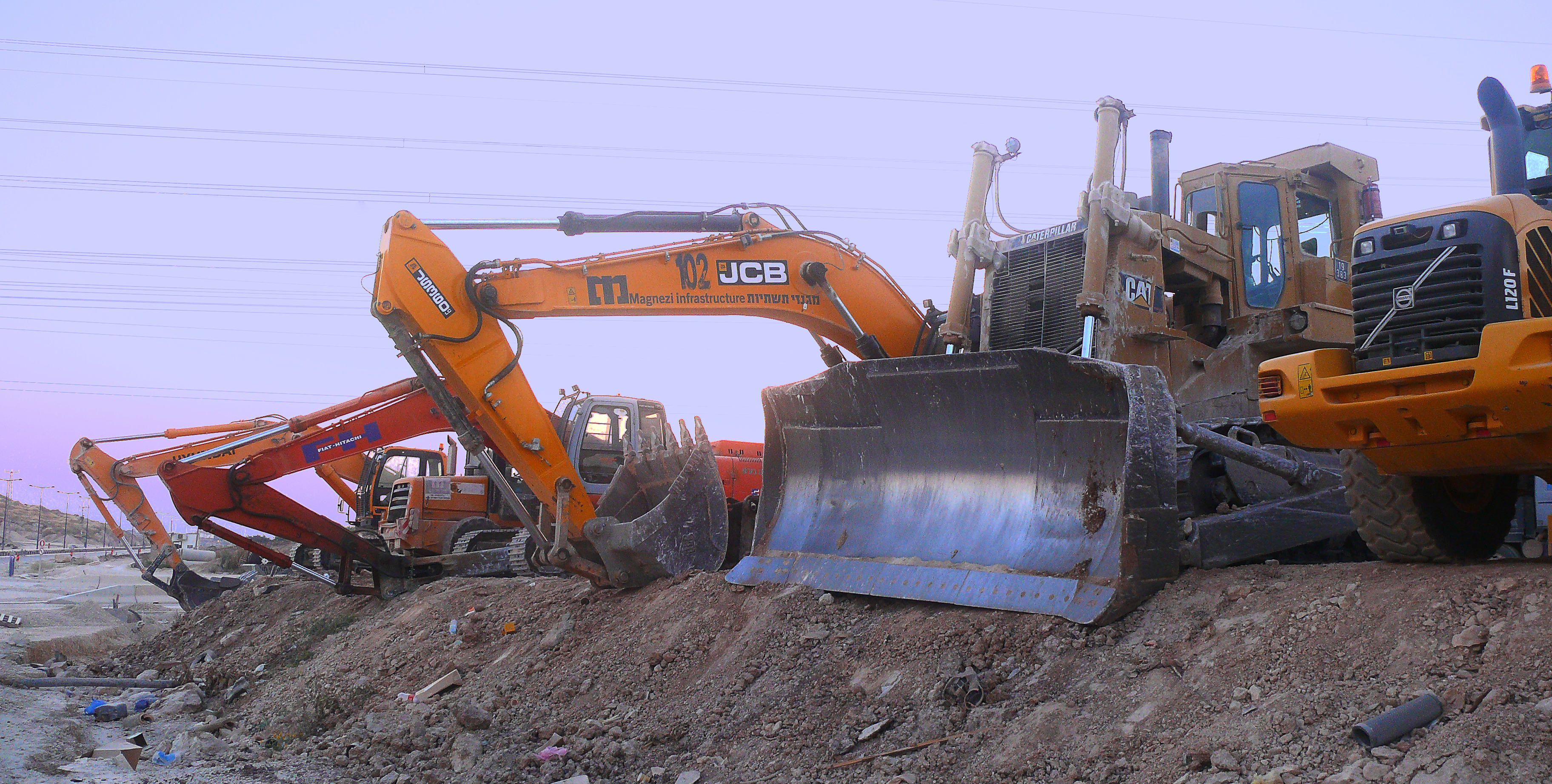 Bulldozers and other heavy equipment park near the Baraket quarry, Israel